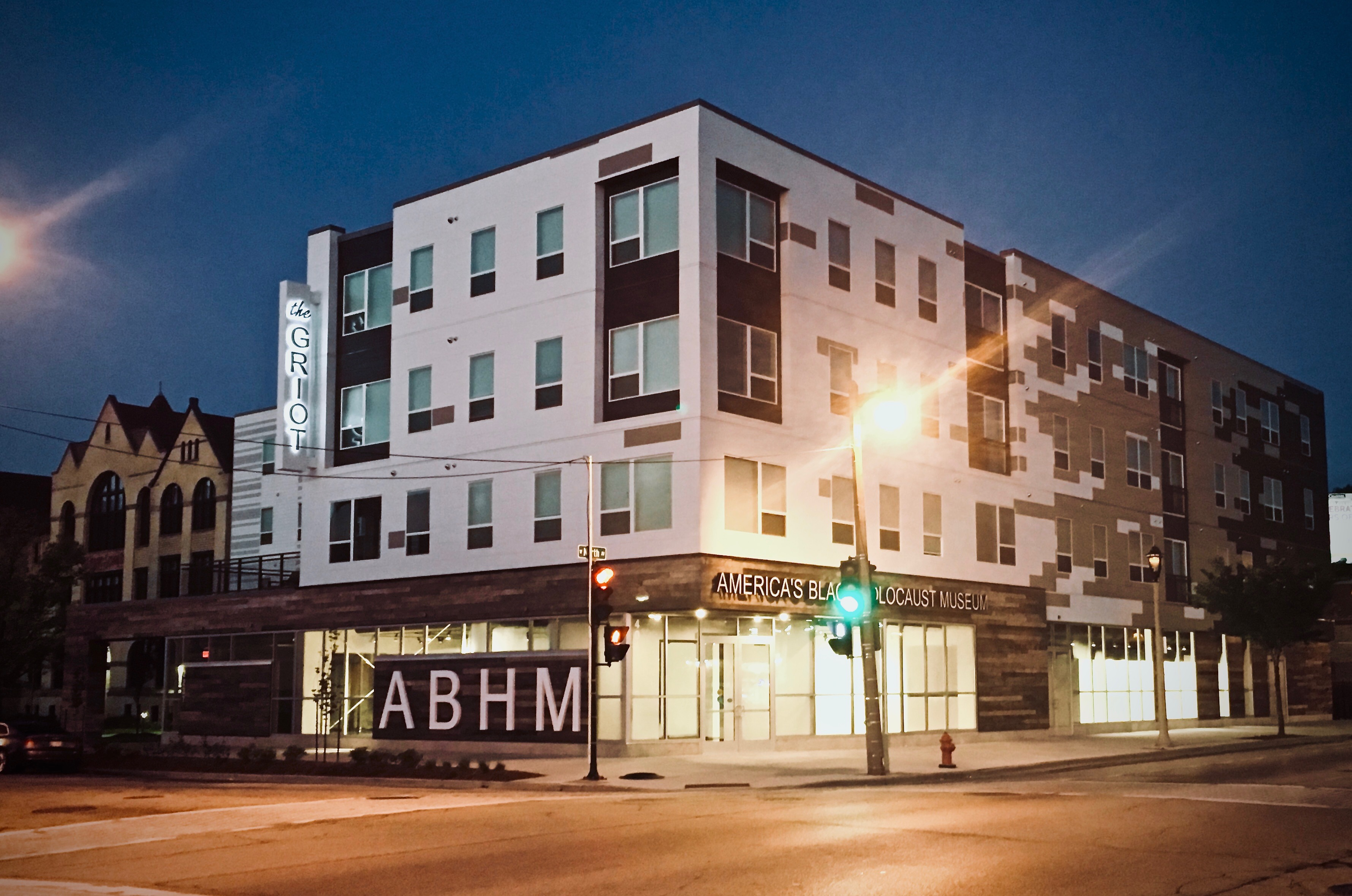 The new ABHM museum, which is scheduled to open fall 2018, is located on the ground floor of the newly built Griot building at 401 W. North Avenue, Milwaukee.